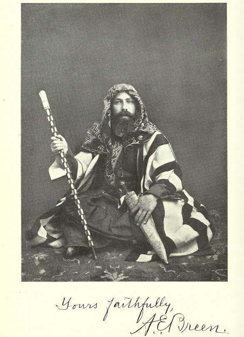 Photograph of A.E. Breen from his book "A diary of my life in the Holy Land" (Public Domain).